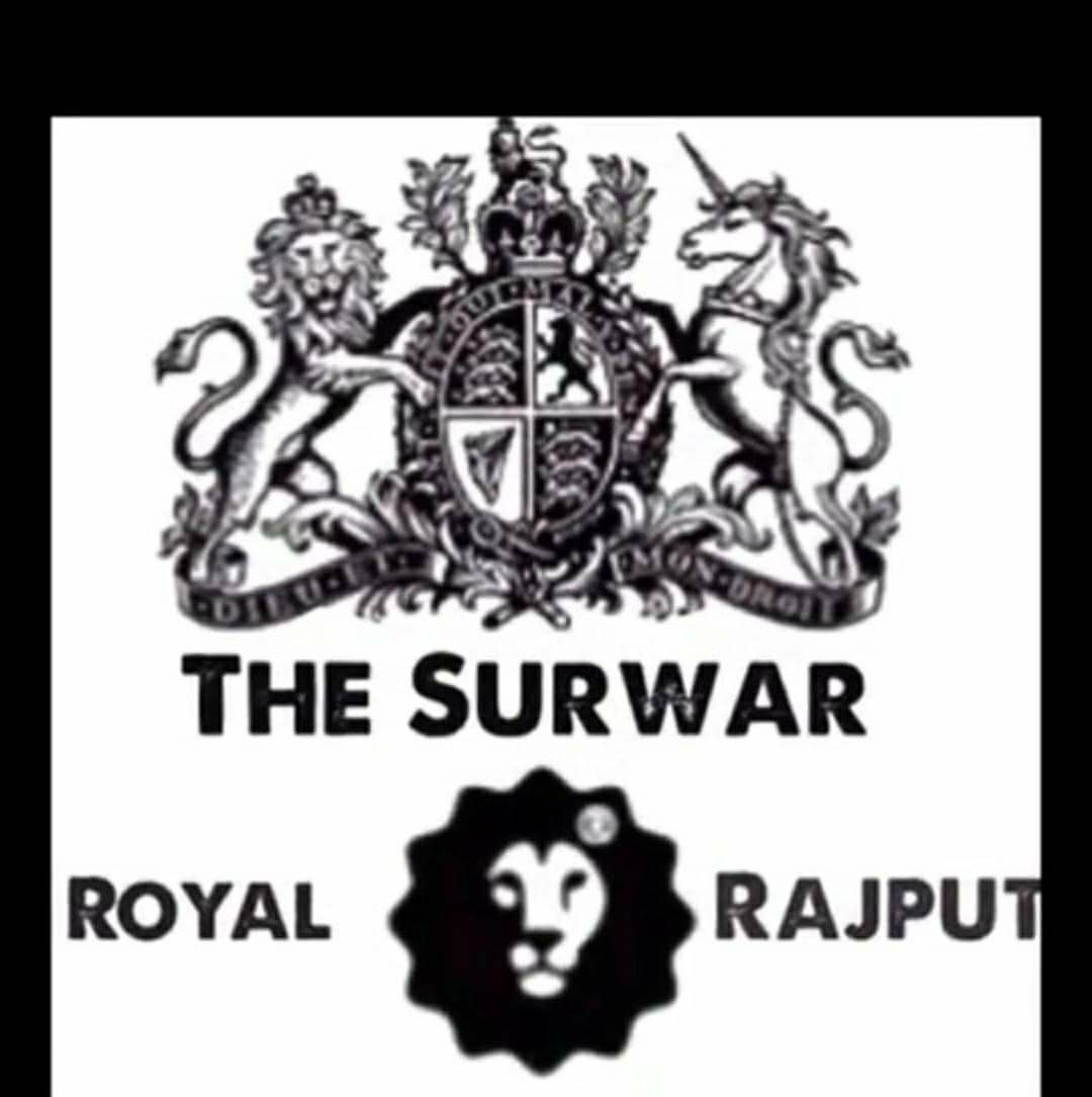 This is a royal symbol of surwar rajput Rajwansh who rule the namudag estate , in palamu ,jharkand